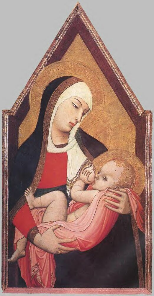 Painting of Ambrogio Lorenzetti, year: 1335